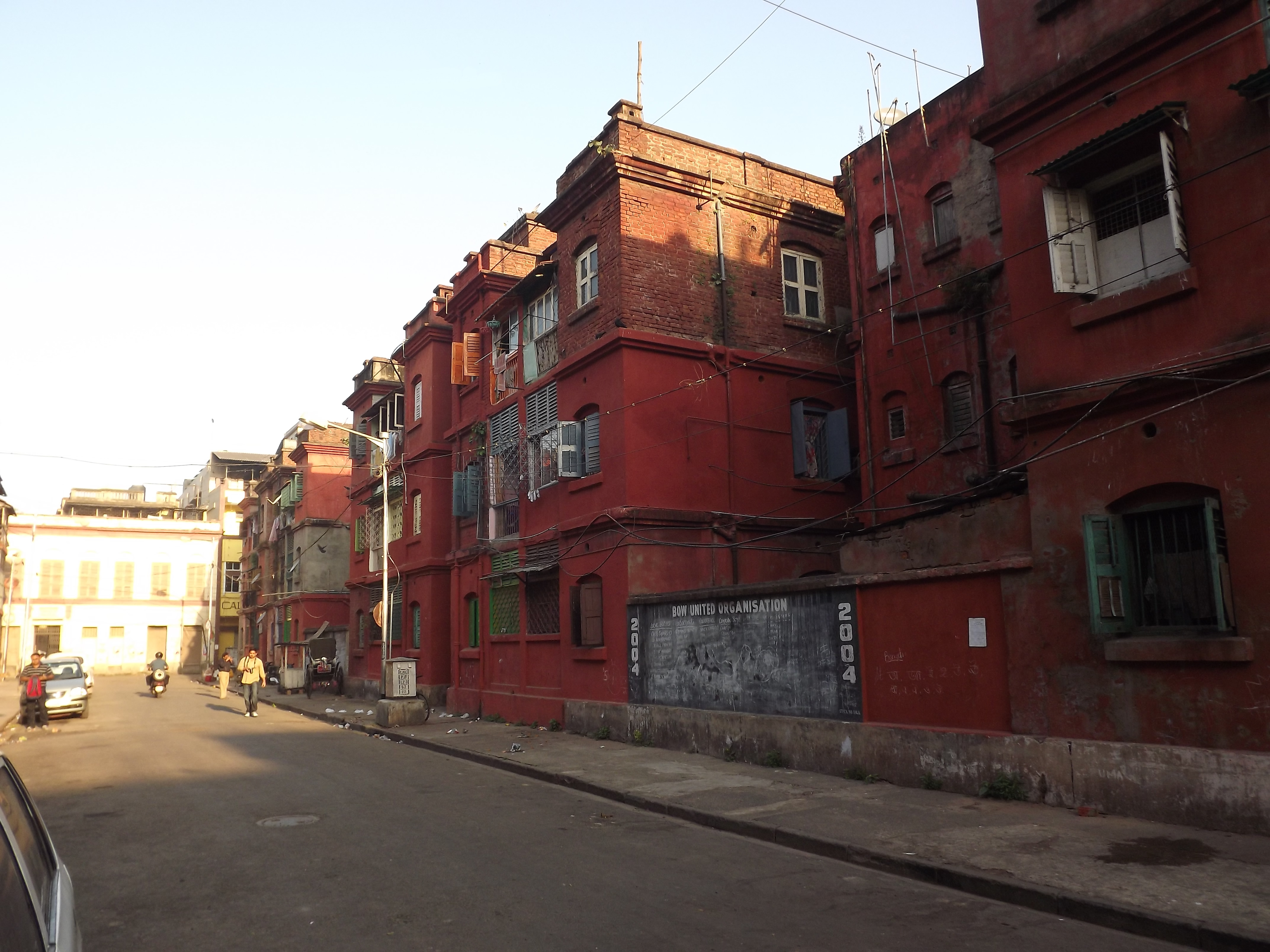 Bow Barracks, Calcutta